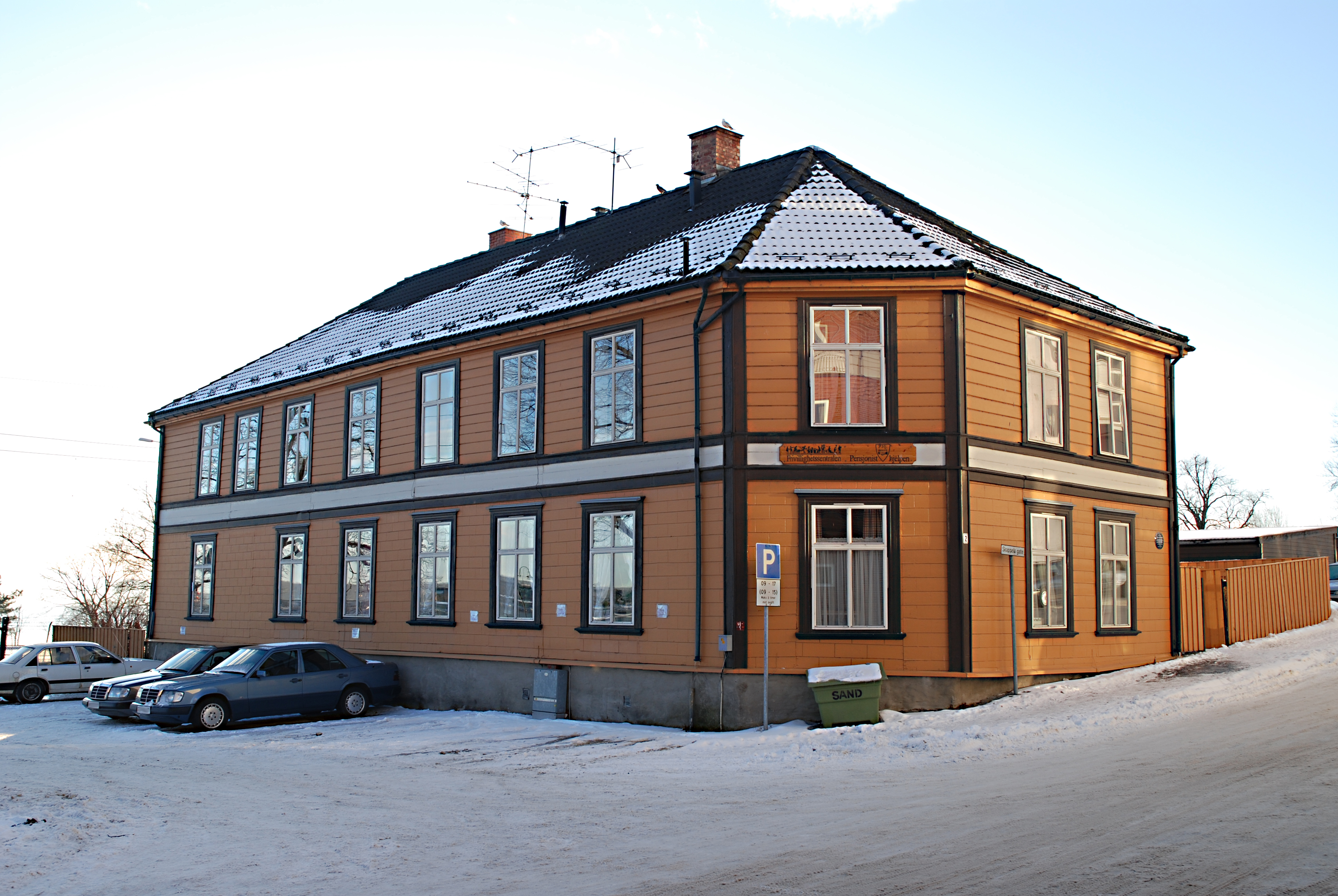 Abelsethgården, in Hamar, Norway. Previous home of poet and writer Rolf Jacobsen.